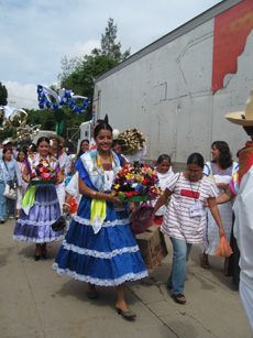 Guelaguetza celebration procession, in an alternative point this year due to civil riot events (precisely NOT in cerro del Fortín)